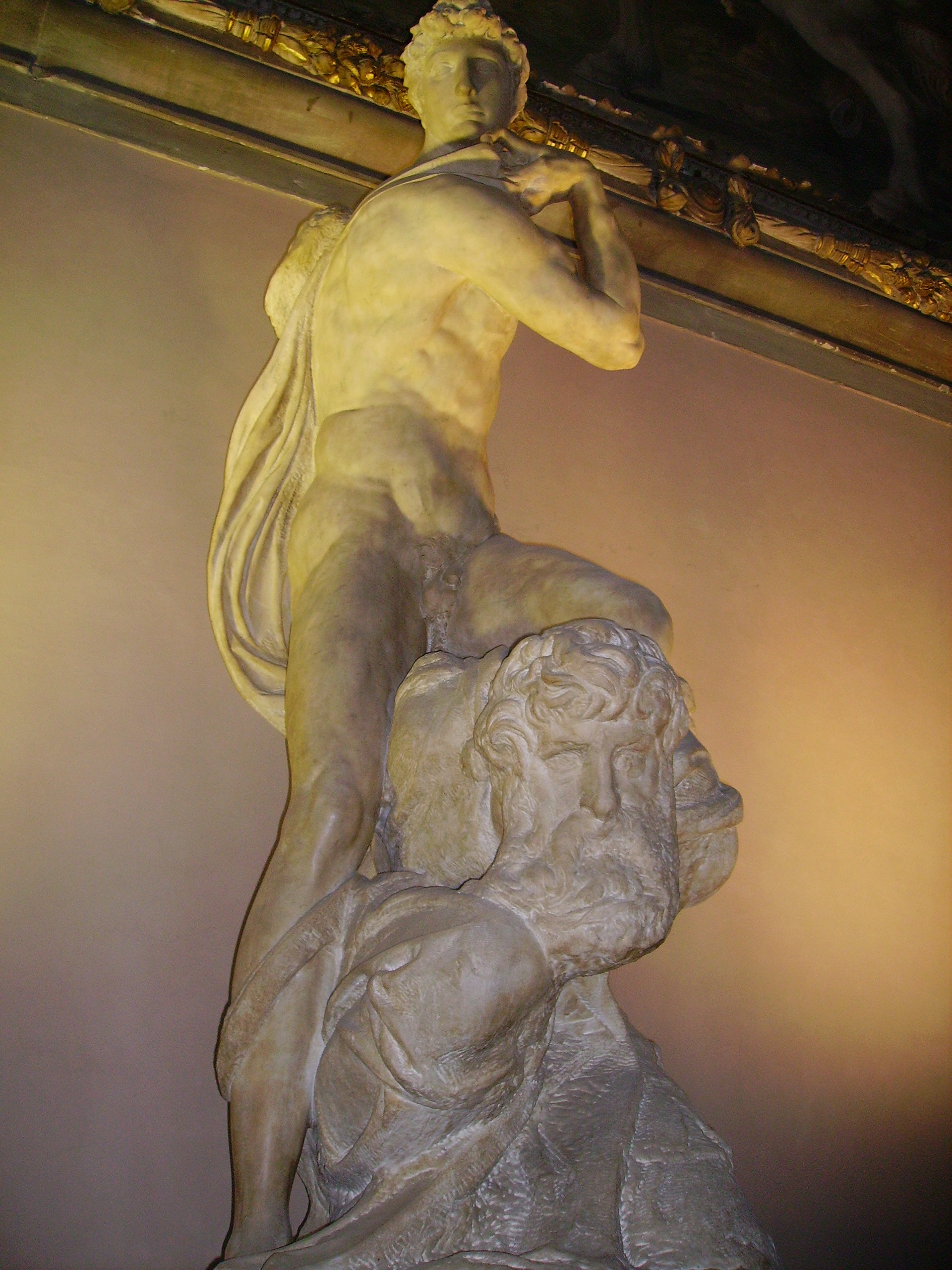 Michelangelo's Genius of Victory